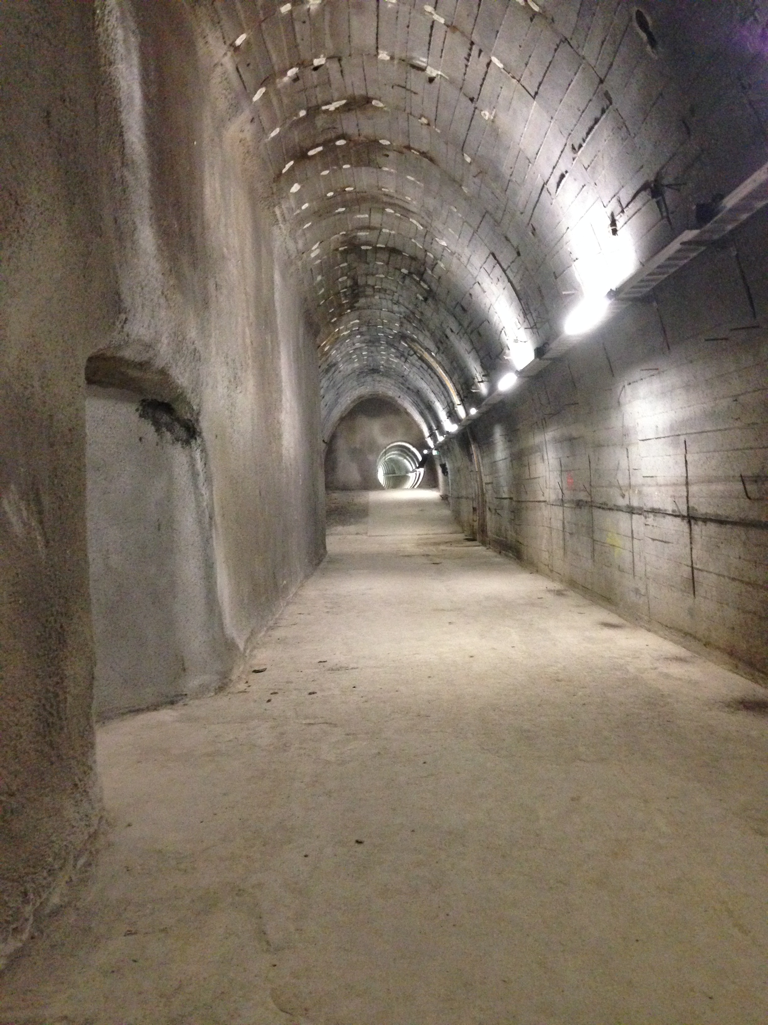 Inside the adit of B8 Bergkristall